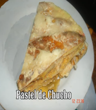 Stingray pie image